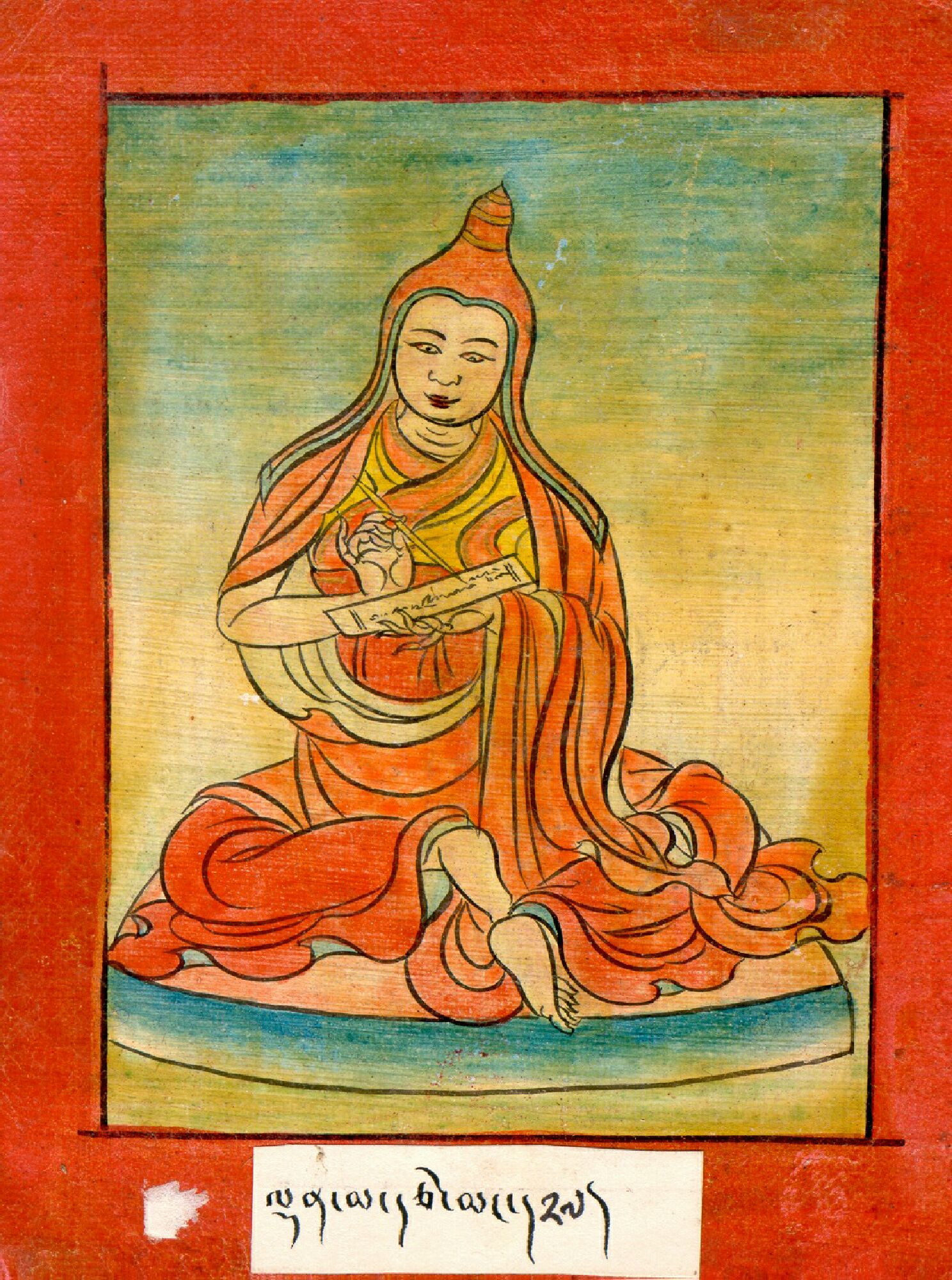 Denma Tsemang, 8th Century Tibetan translator